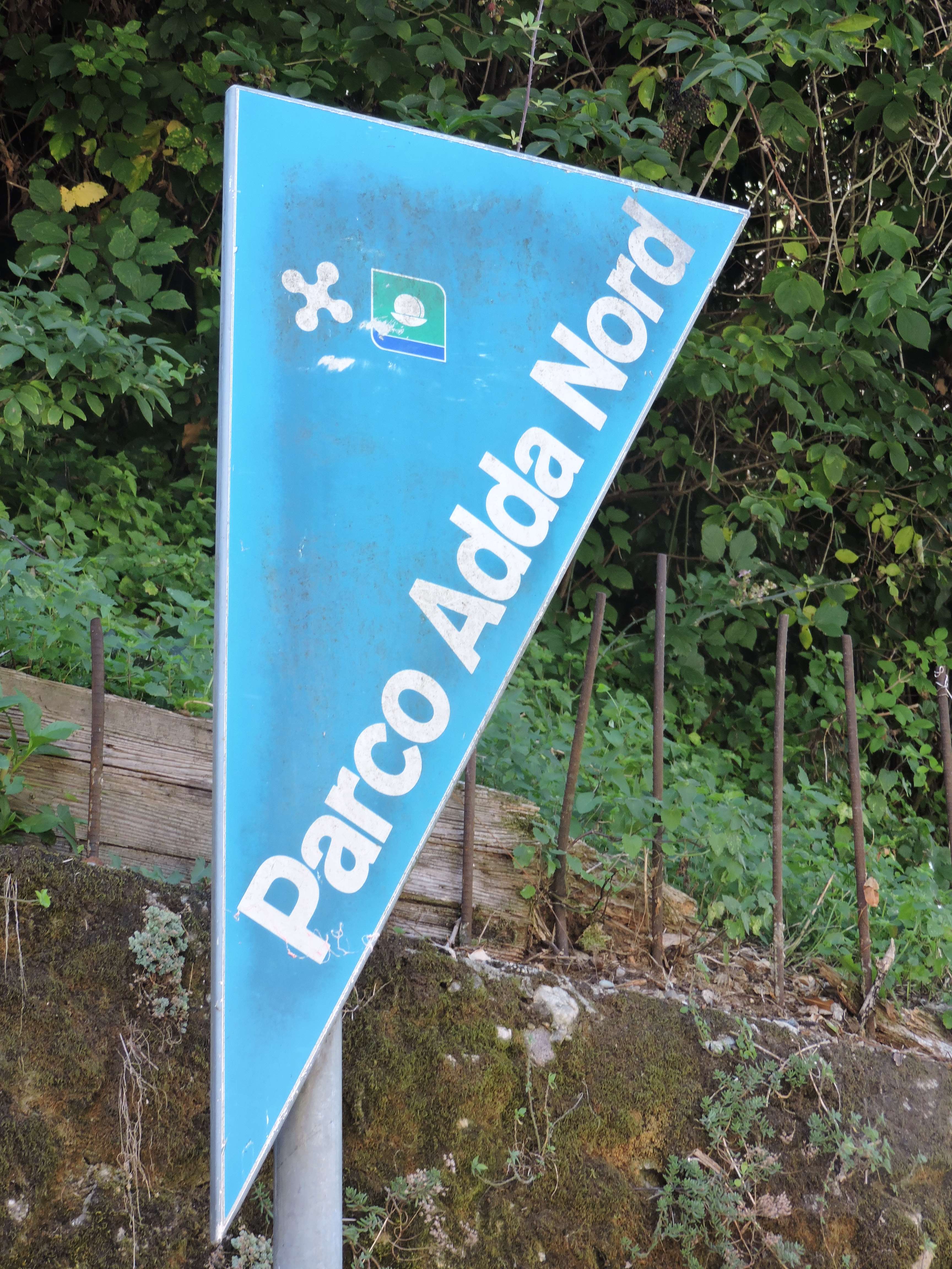 Parco Adda Nord (Lombardy, Italy)